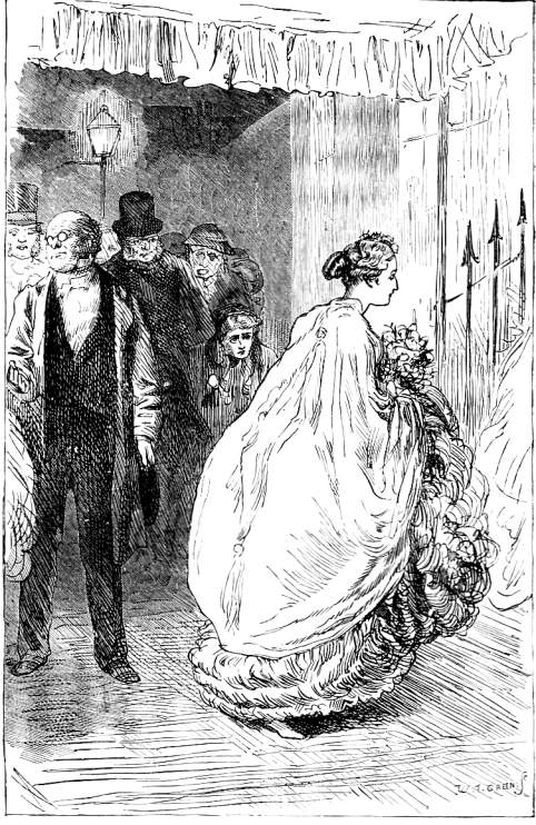 Jenny Wren's impressions of the appearance and fashions of society ladies